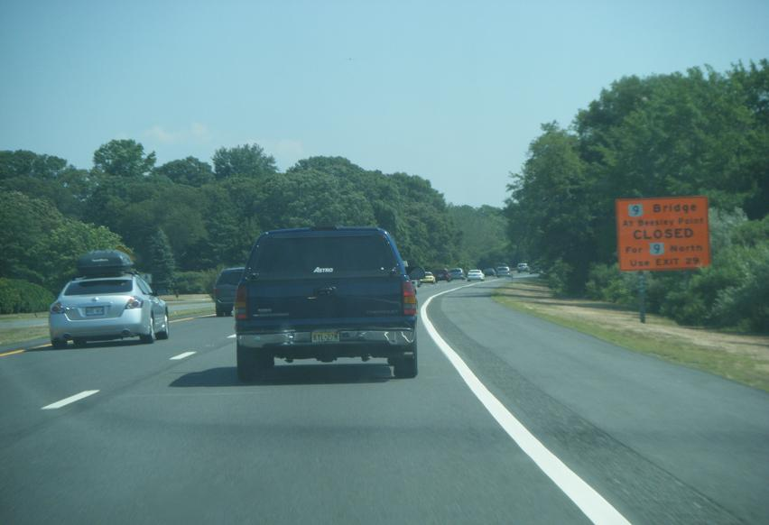 Northbound Garden State Parkway in Upper Township, New Jersey with a sign advising of the closure and detour of the Beesley Point Bridge that carries U.S. Route 9 over the Great Egg Harbor